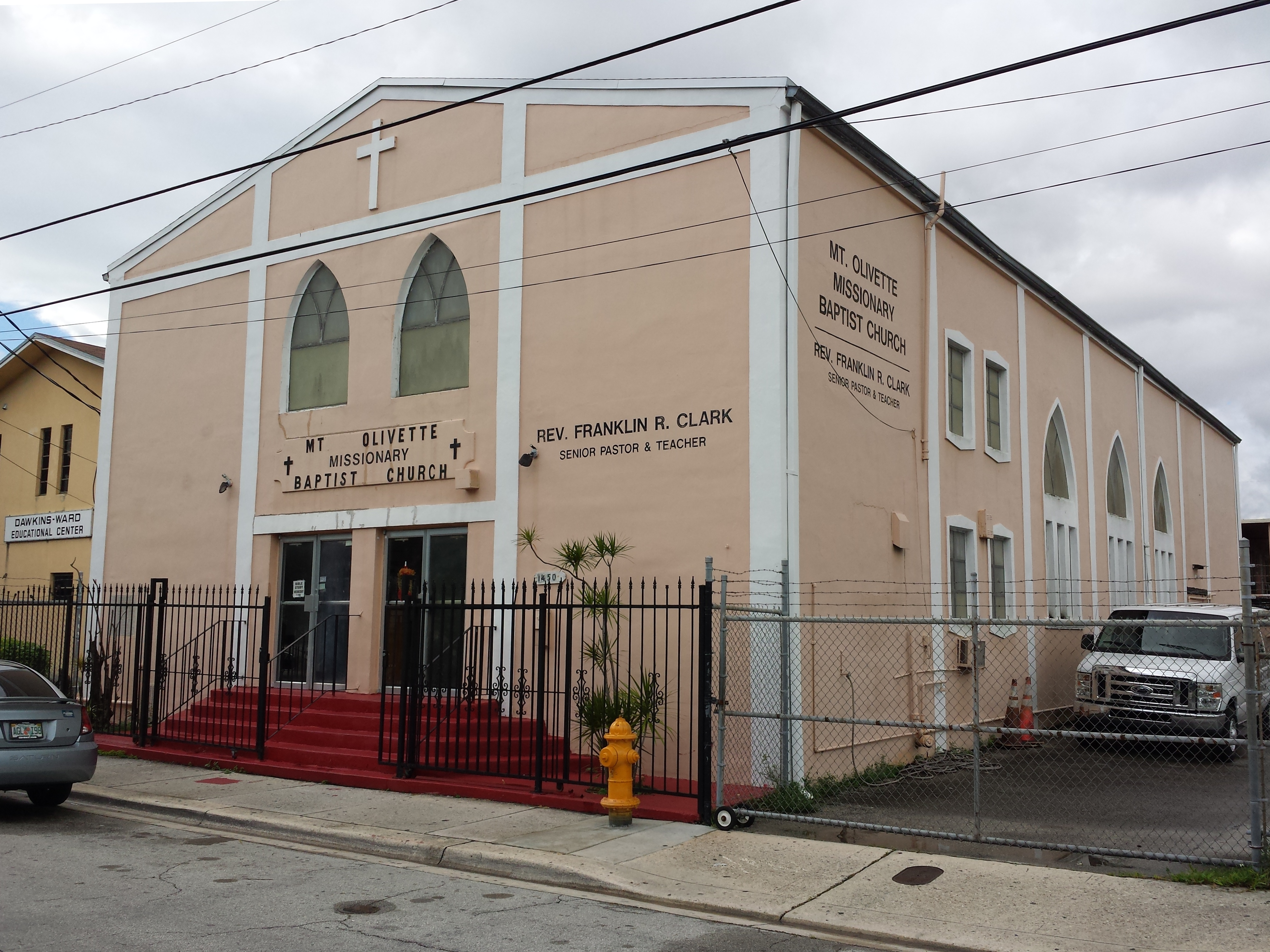 Overtown: Mt. Olivette Baptist Church, 1450 NW 1st Ct, Miami, FL